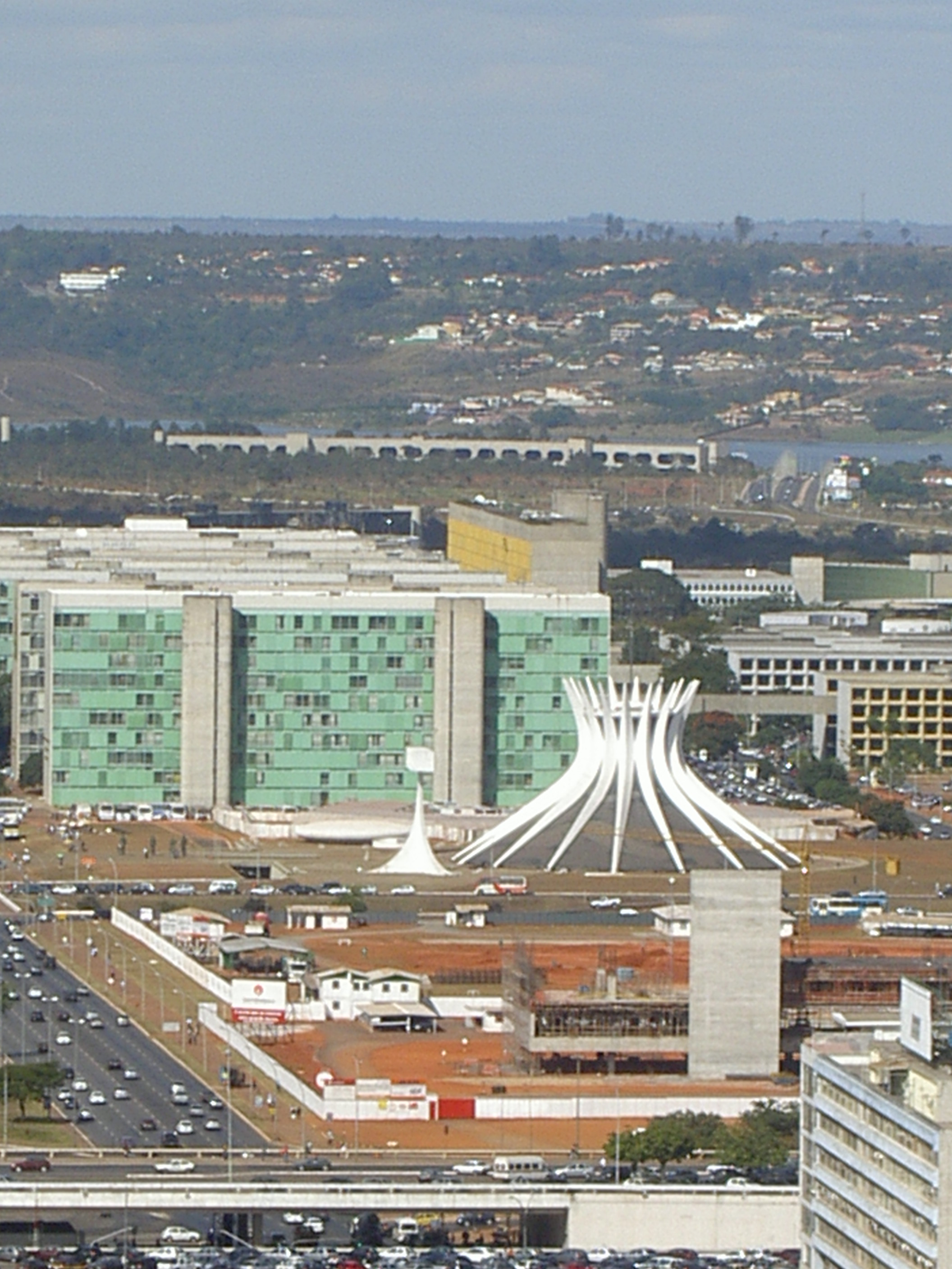 View of the Cathedral of Brasília with TV tower